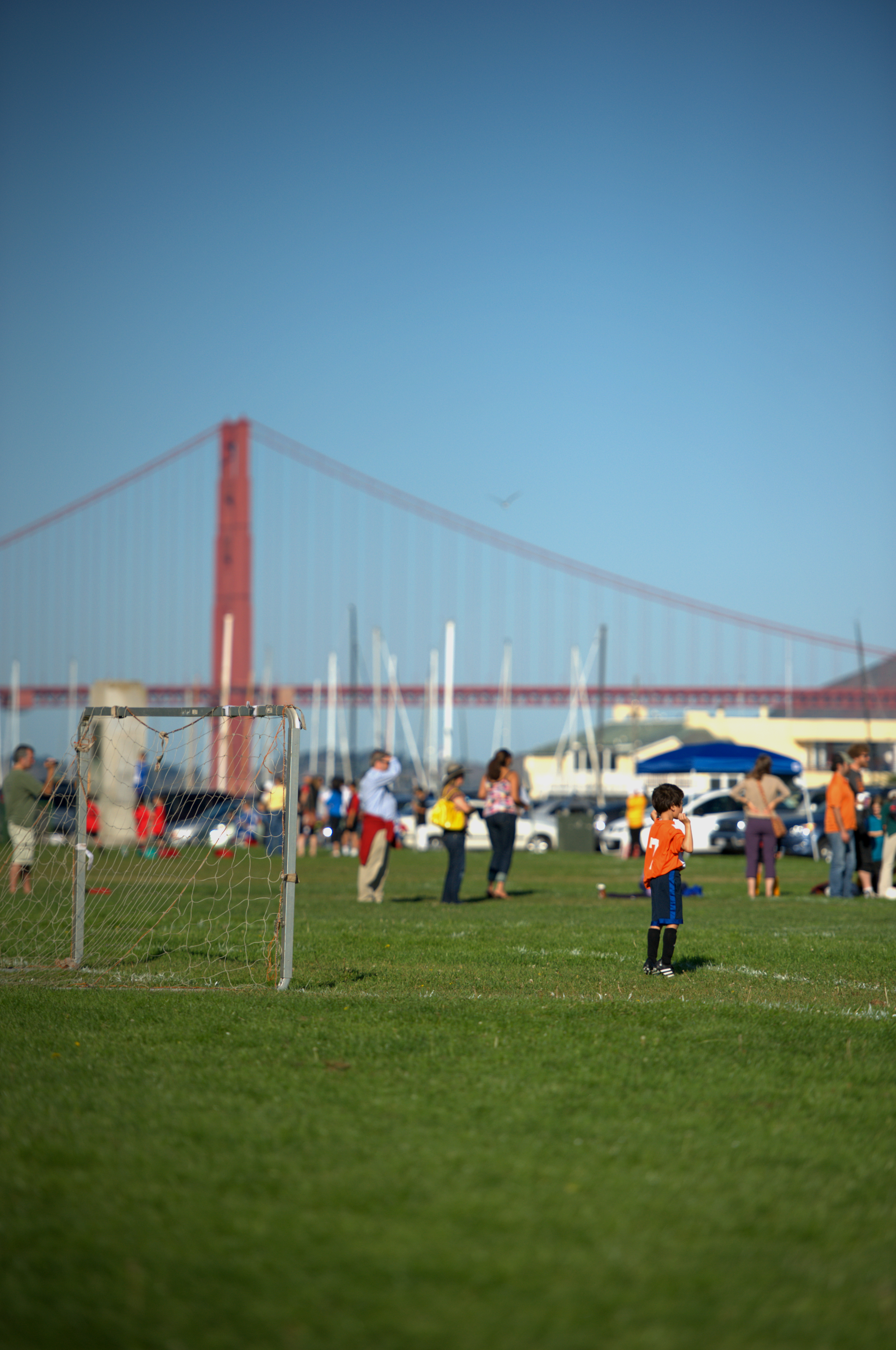 Children soccer competition at Marina Green, San Francisco, California, with the Golden Gate Bridge in the background